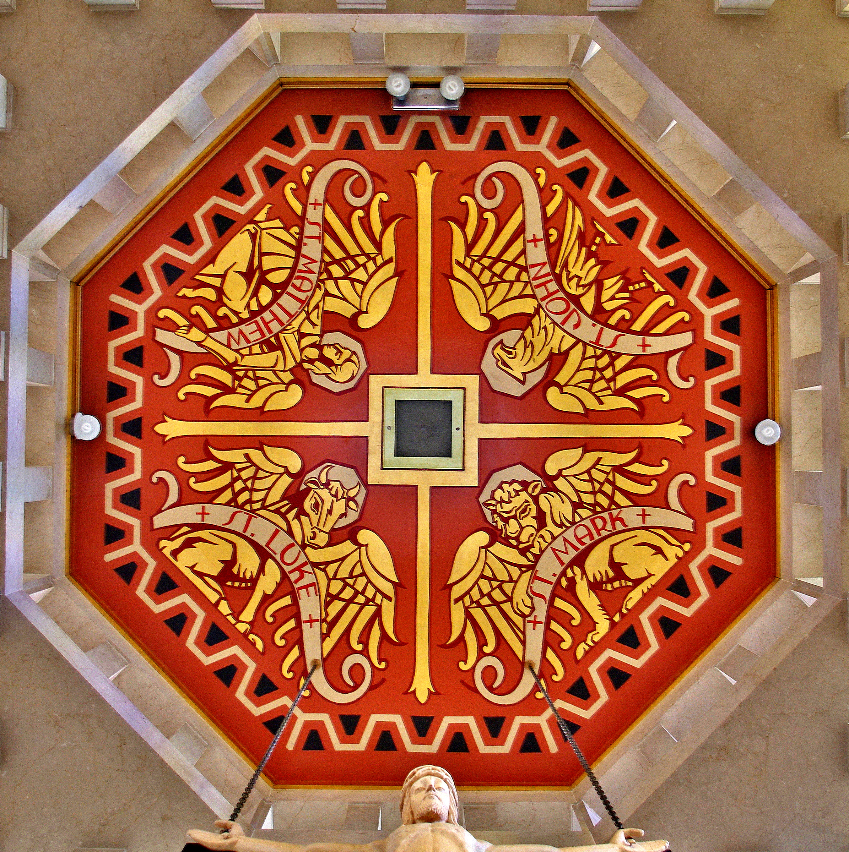 Saint Catharine of Siena Church (Columbus, Ohio) - baldachin ceiling mural, the Gospels